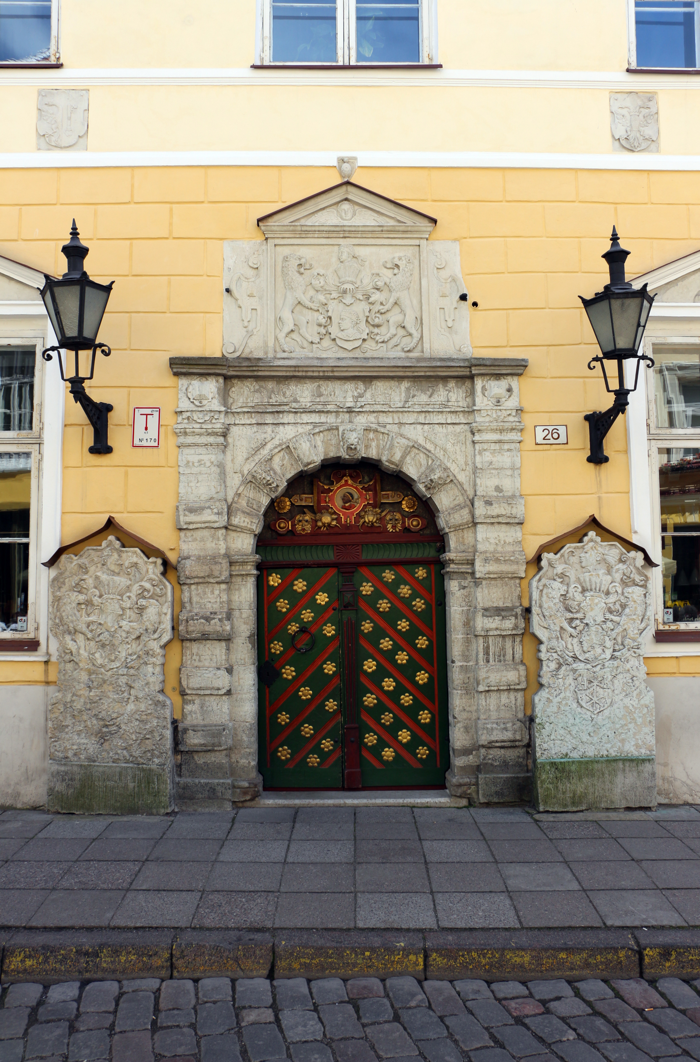 House of the Blackheads (Tallinn)